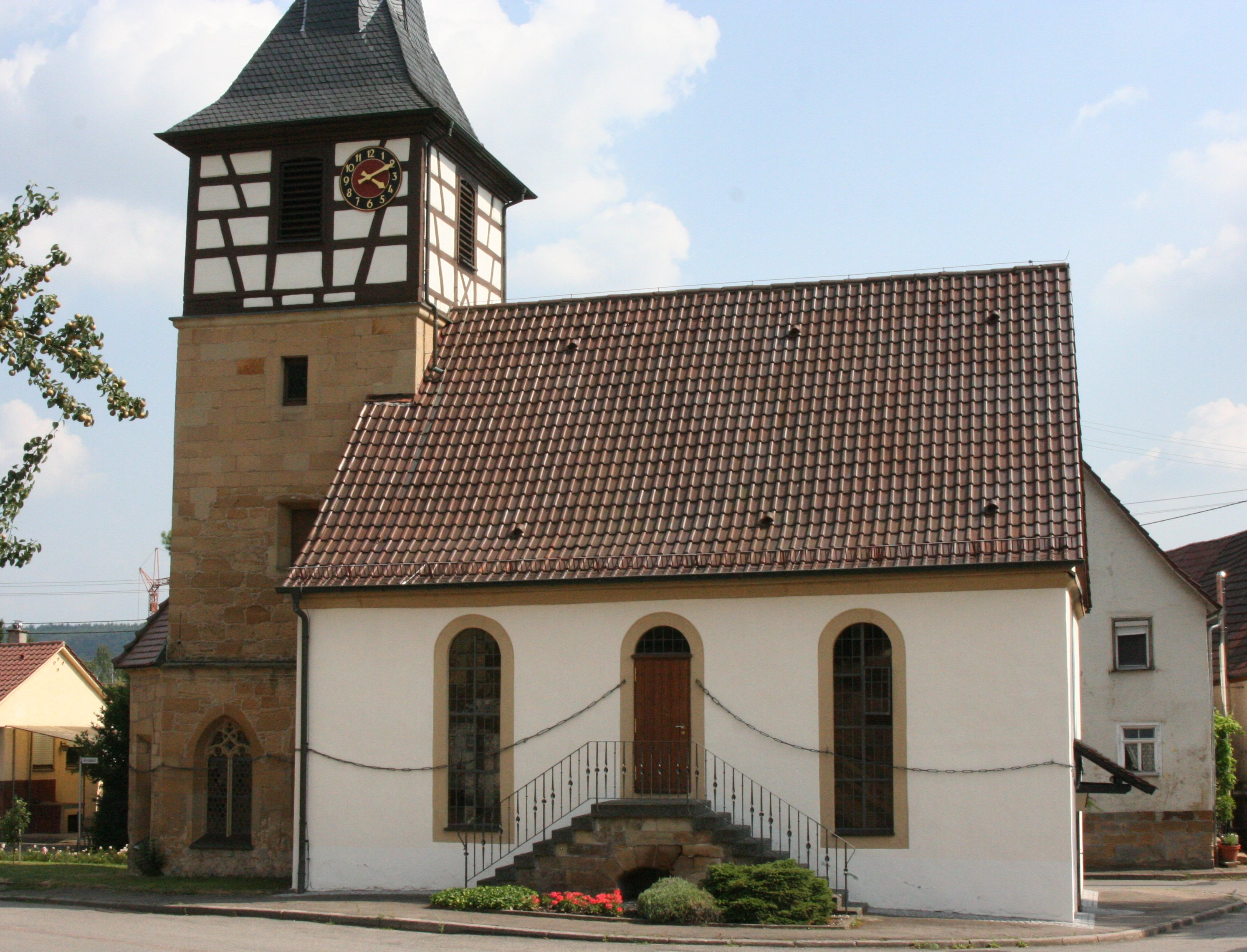 The church of St Leonard in Weinsberg-Gellmersbach